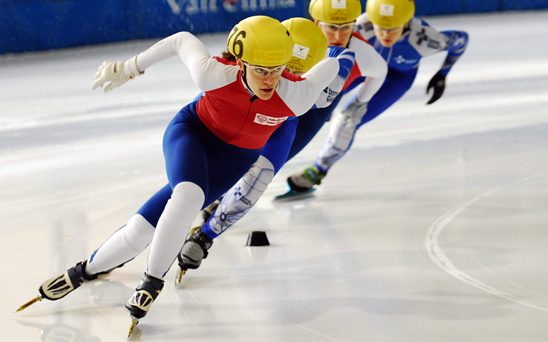 Bormio SHORT TRACK CUP - COPPA ITALIA 2007